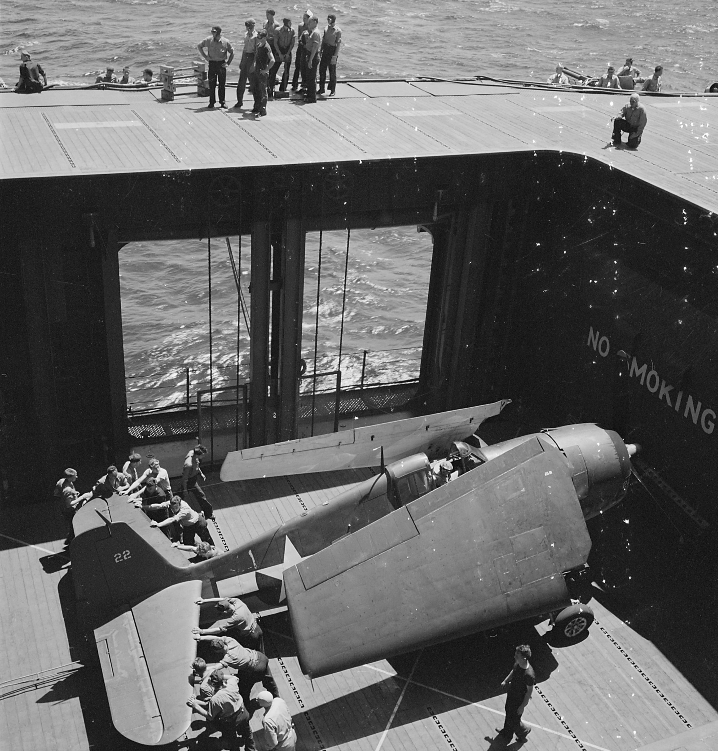 U.S. Navy crewmen aboard the Independence-class light aircraft carrier USS Monterey (CVL-26) pushing a Grumman F6F Hellcat fighter to the flight deck elevator in June 1944. The Hellcat belonged to Fighter Squadron 28 (VF-28), Carrier Air Group 28 (CVG-28).